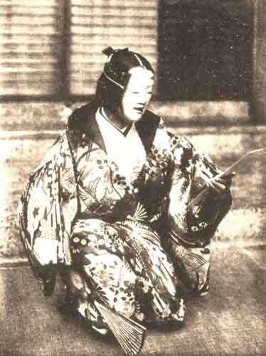 Appears in a 1921 book The No Plays of Japan.